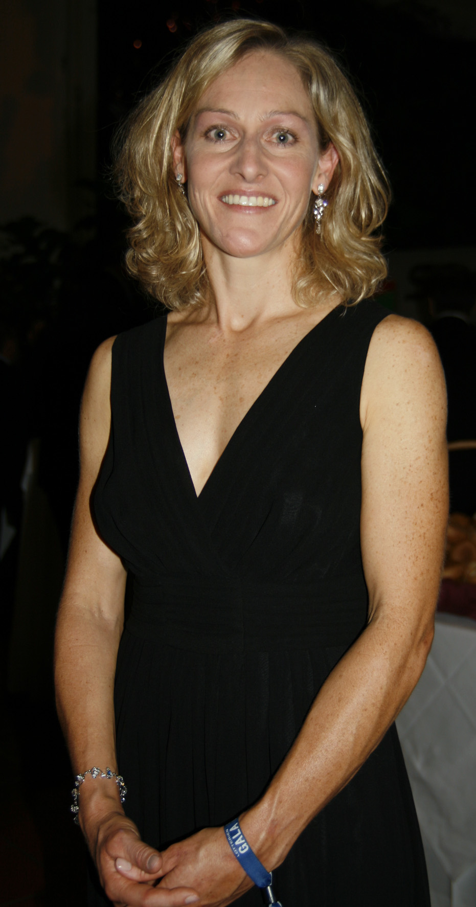 Austrian triathlete Kate Allen at the Galanacht des Sports (Gala-Night of Sports), where the Austrian Sportspersonalities of the Year 2008 were honoured.